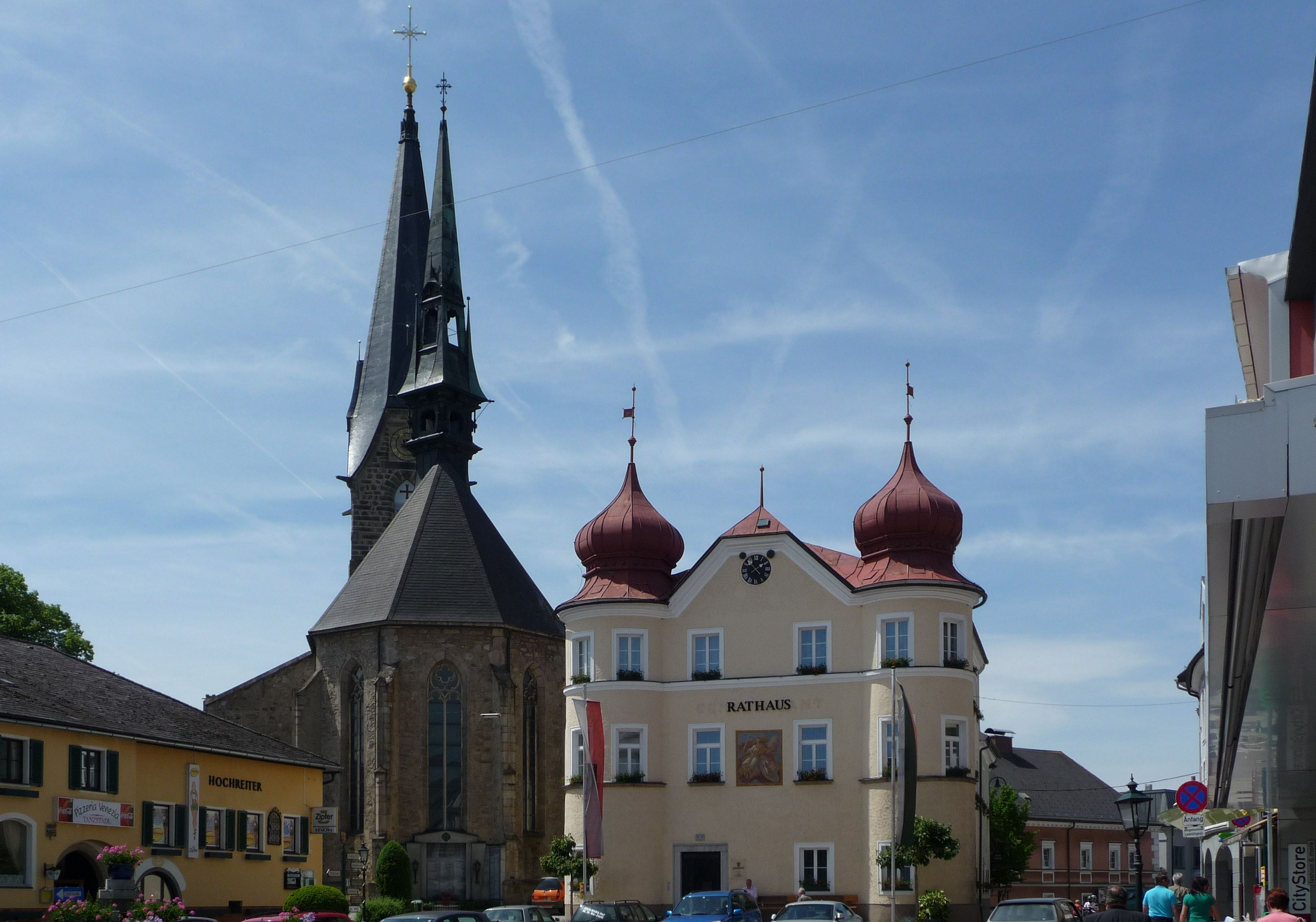 Parish Church and city hall in Bad Leonfelden